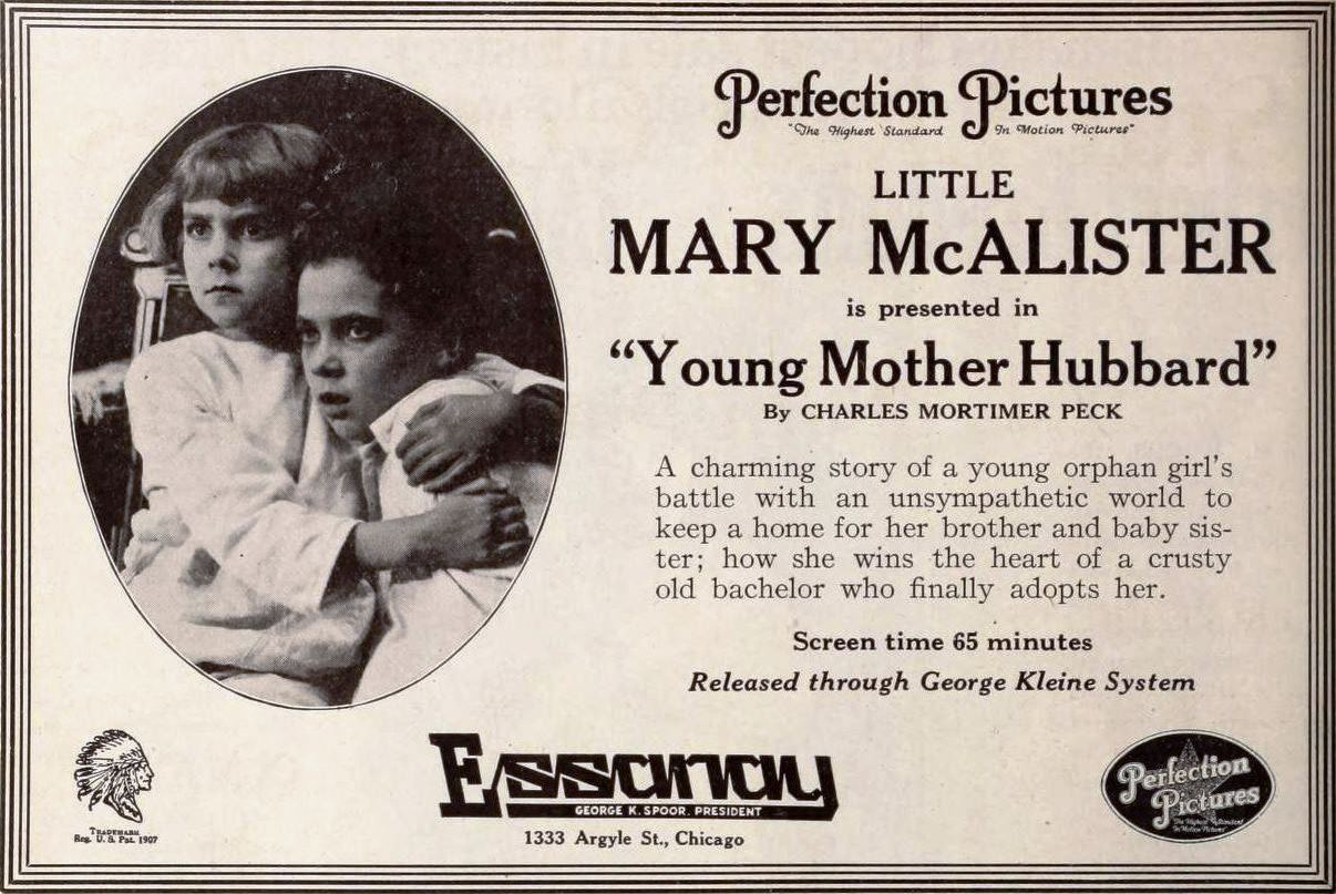 Advertisement for the American drama film Young Mother Hubbard (1917) with Mary McAllister, on page 8 of the November 10, 1917 Exhibitors Herald.